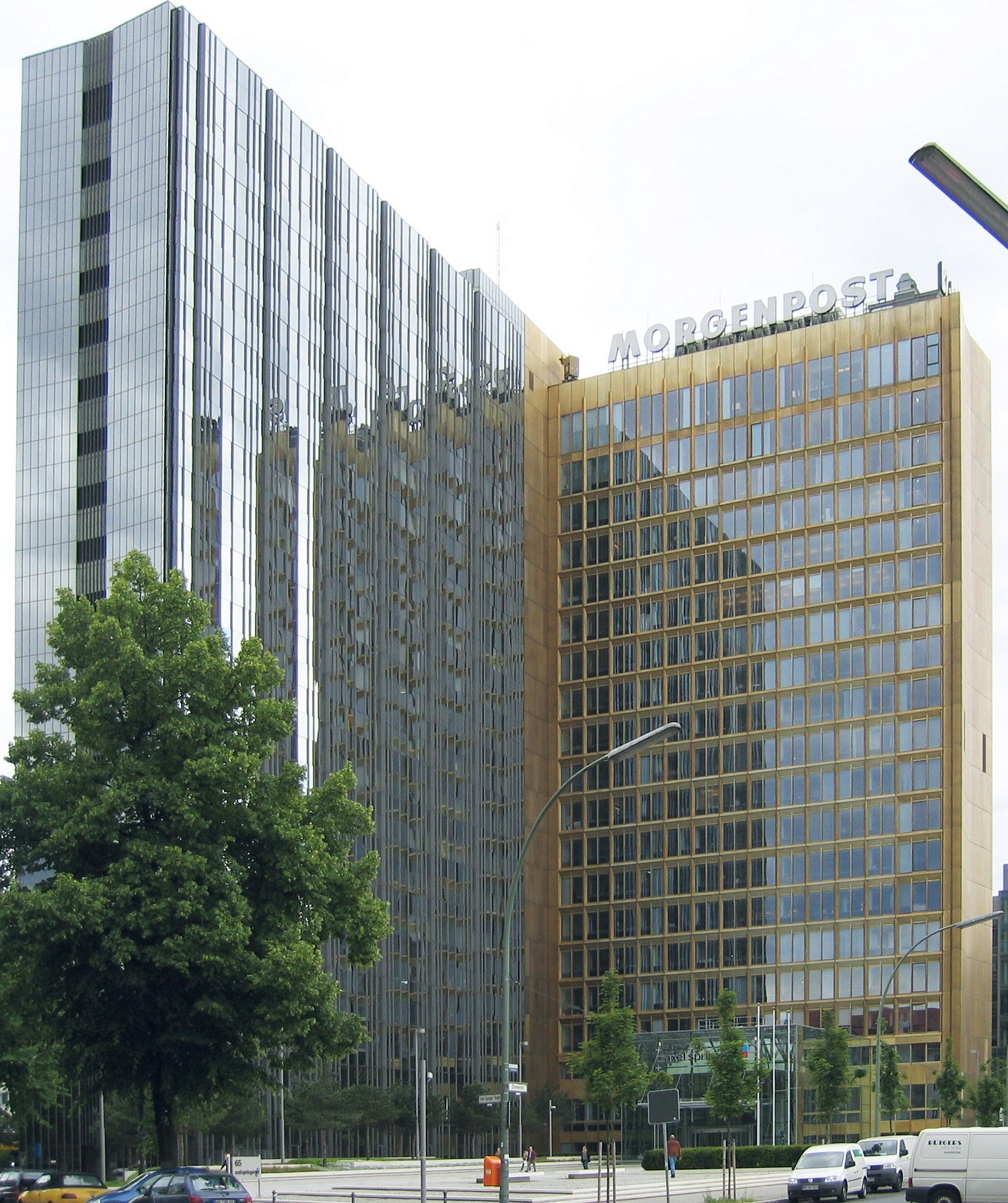 Berlin - side view of the Axel-Springer-Haus (Axel Springer building)